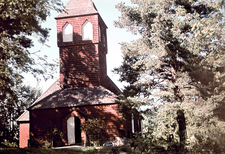 Bäckaby church in Stadsparken